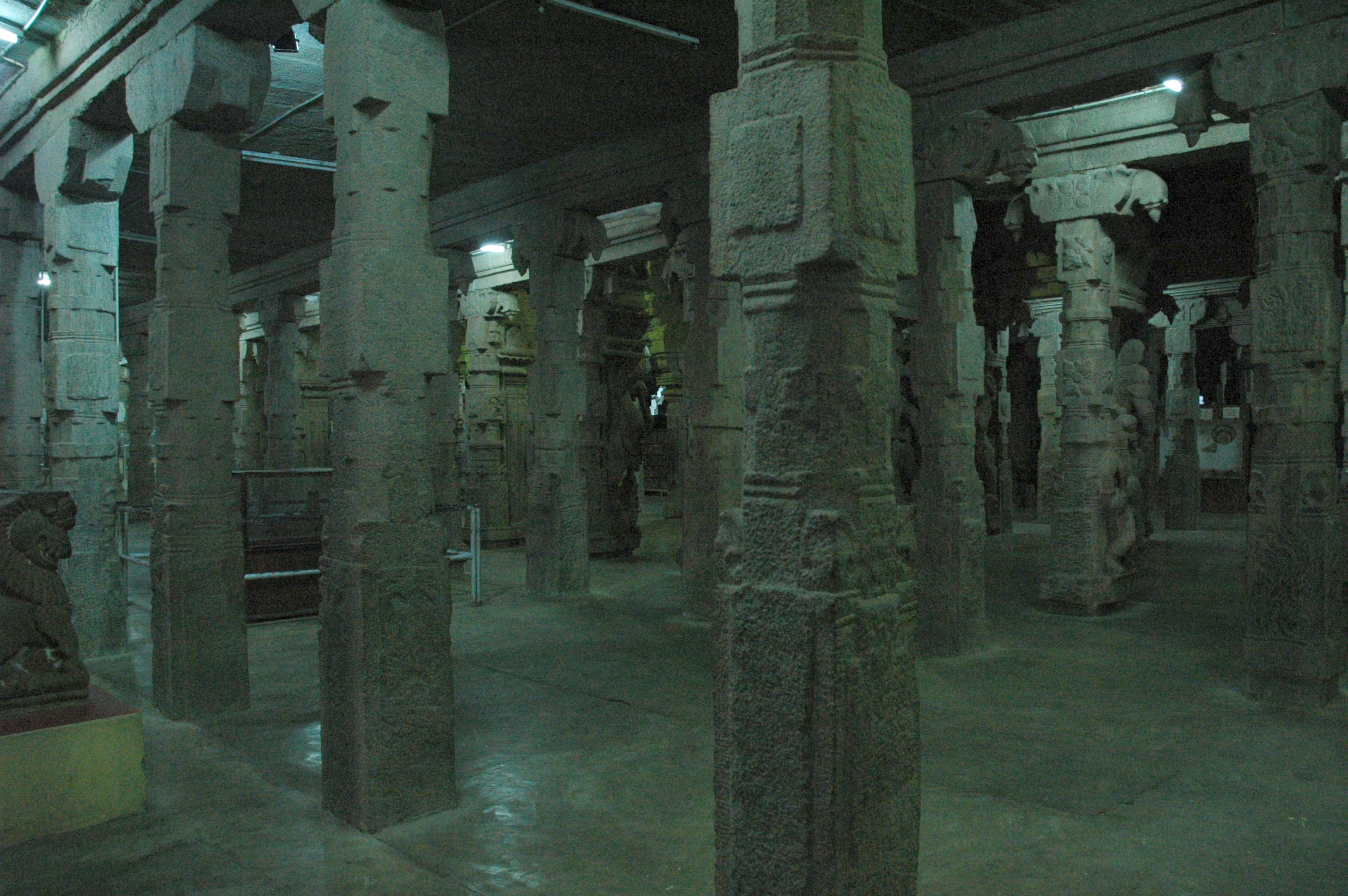 1000 Pillar Hall